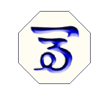 One of the janggi pieces.